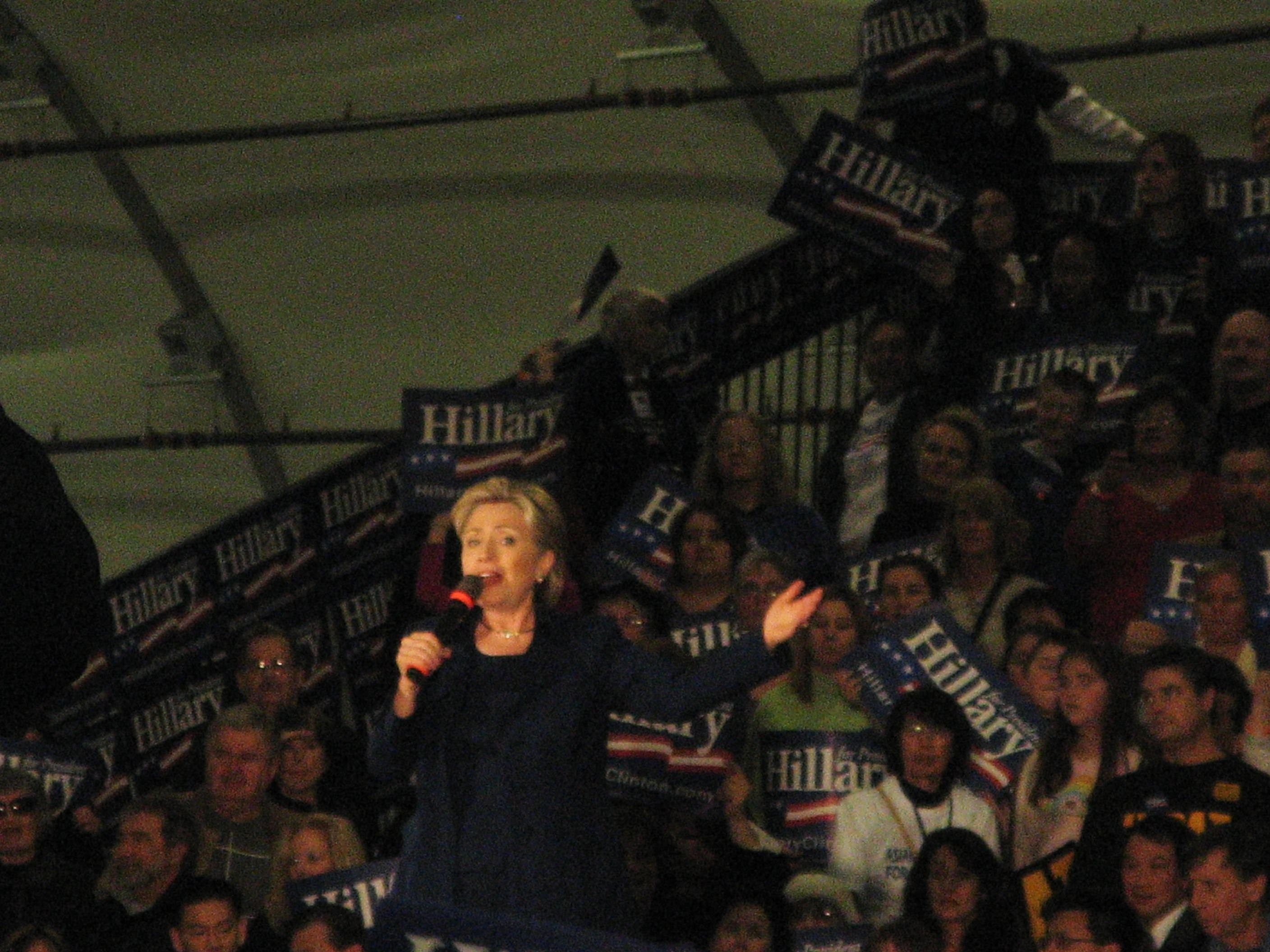 Hillary Clinton Campaigning for the Democratic Primary